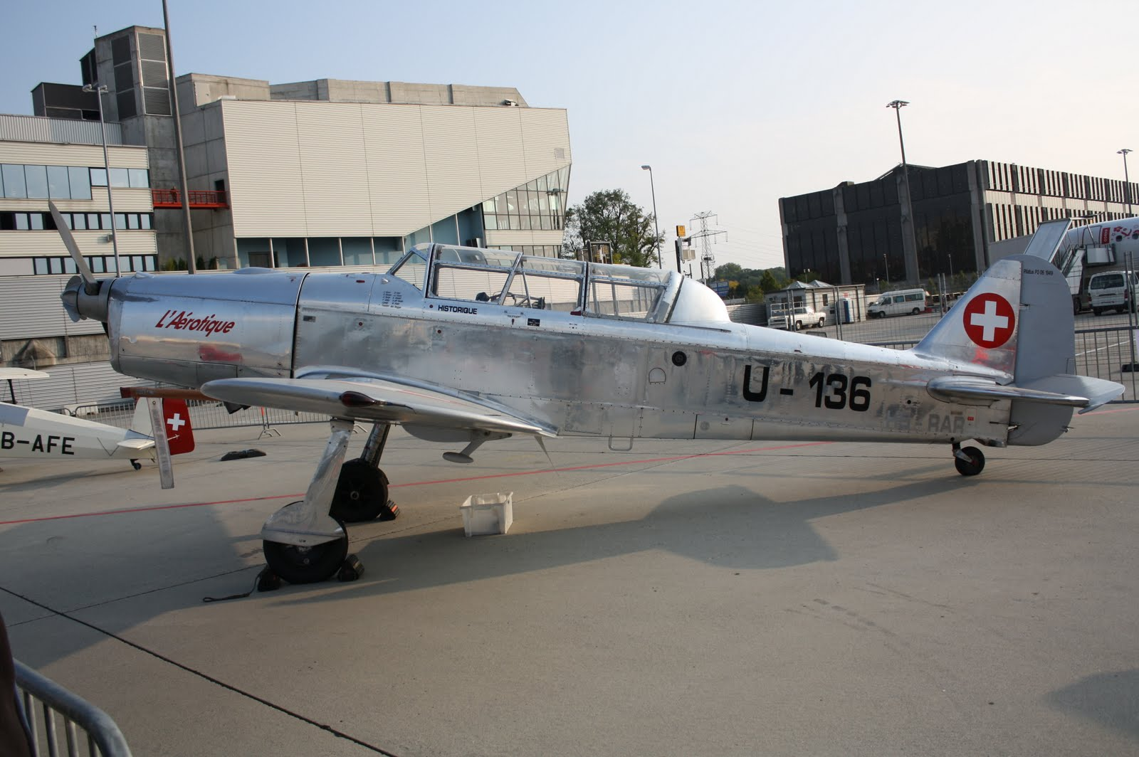 Pilatus P-2 with Swiss marking during Geneva Classics 2009